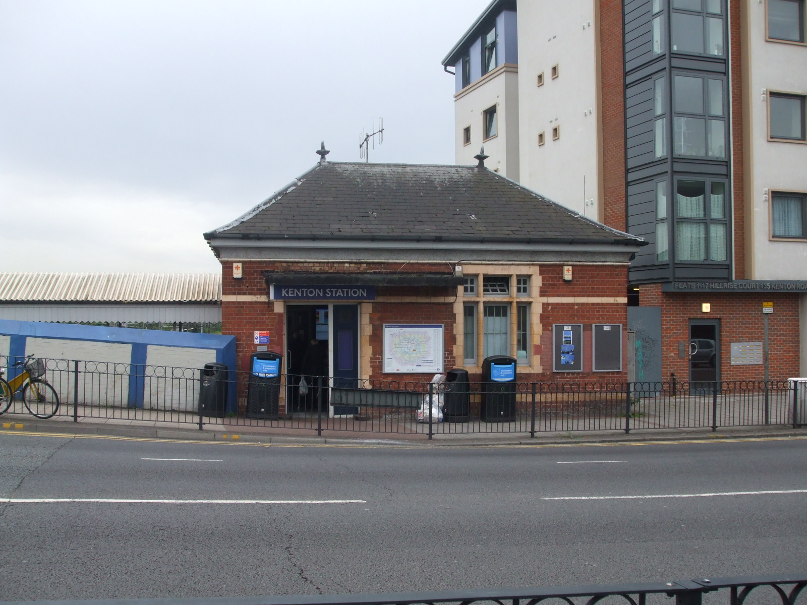 Kenton station, served by both London Underground (the Tube) and London Overground